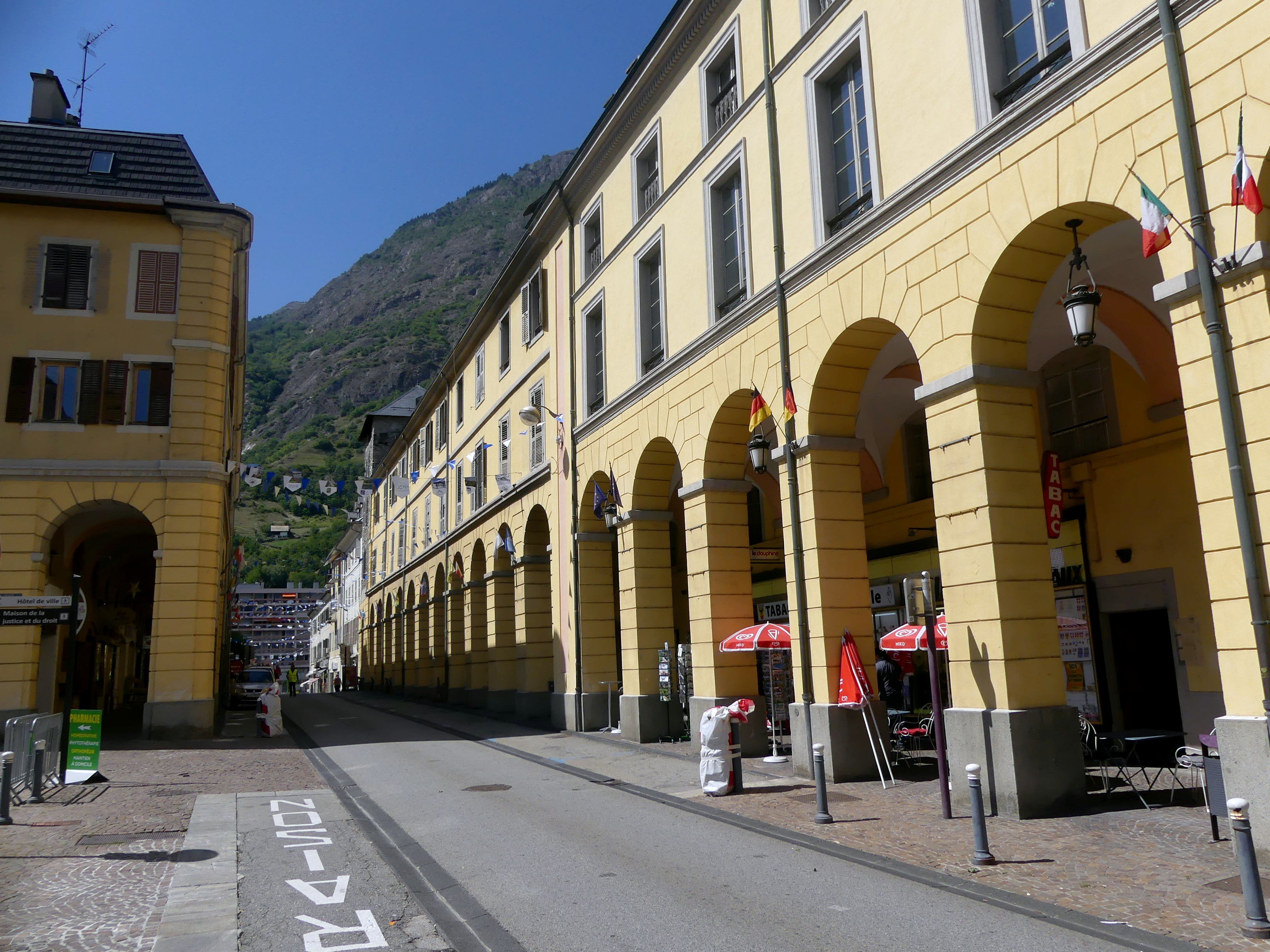 Sight of the arcades along the Rue de la République street, in Saint-Jean-de-Maurienne, Savoie, France.